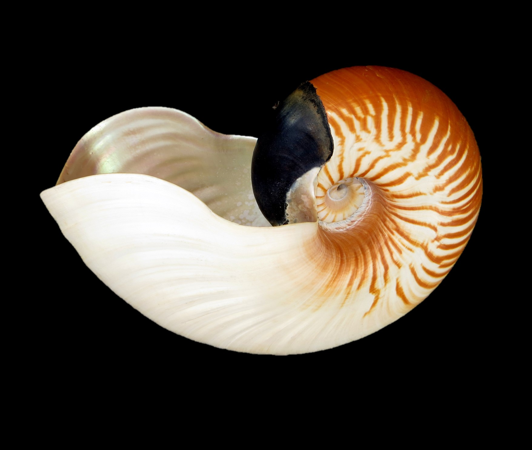 Allonautilus perforatus is the only living species of Nautilus that has never been seen alive (as at October 2016). Drift shells are extremely rare and ones in excellent condition more so. This specimen is featured in the book NAUTILUS: Beautiful survivor by Wolfgang Grulke published in 2016.